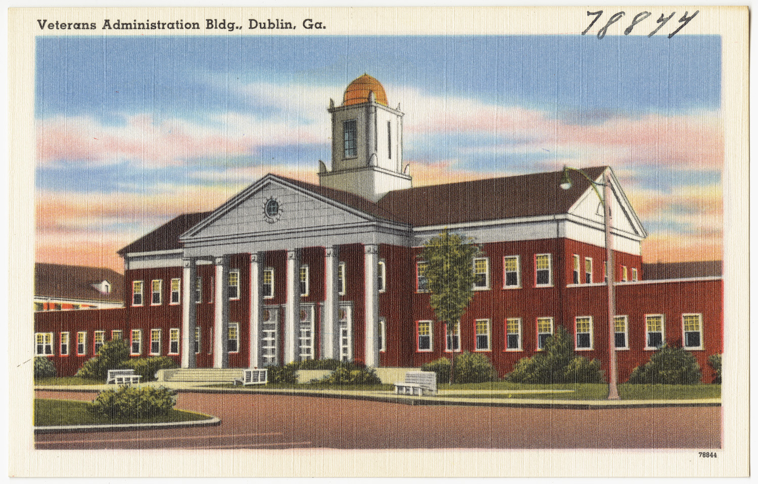 File name: 06_10_014045 Title: Veterans Administration Bldg., Dublin, Ga. Date issued: 1930 - 1945 (approximate) Physical description: 1 print (postcard) : linen texture, color ; 3 1/2 x 5 1/2 in. Genre: Postcards Subject: Military facilities Notes: Title from item. Collection: The Tichnor Brothers Collection Location: Boston Public Library, Print Department Rights: No known restrictions